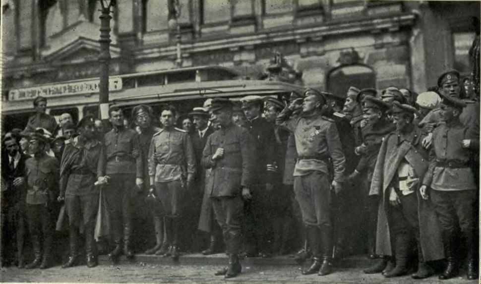 Alexander Kerensky watching the funeral of victims of the July Bolshevik risings, summer 1917.